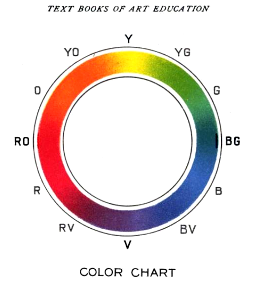 A 1904 red, yellow, blue color circle